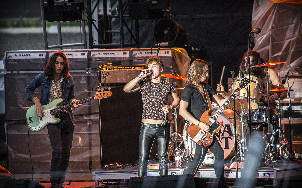 Greta Van Fleet onstage at the Red River Valley Fair, West Fargo, North Dakota, July 14, 2017